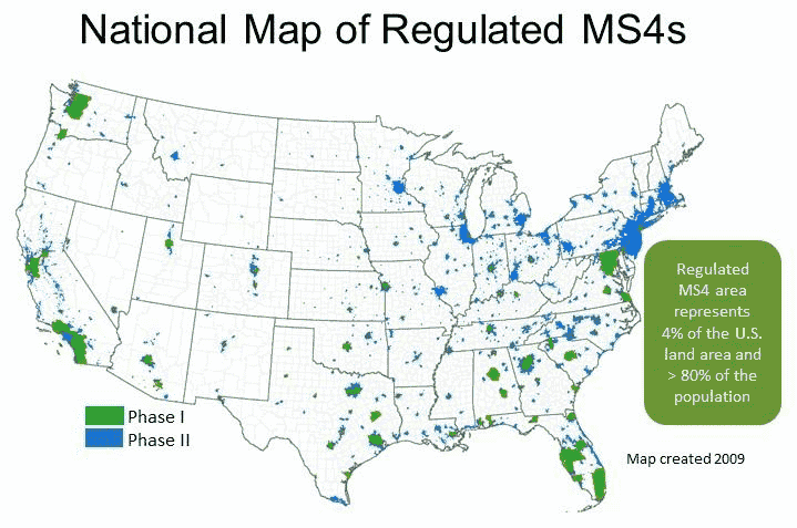 "National Map of Regulated MS4s", showing the location of Municipal Separate Storm Sewer Systems (MS4) in the United States. The MS4s are regulated by discharge permits under the National Pollutant Discharge Elimination System (NPDES). Phase I Ms4s are medium and large cities or certain counties with populations of 100,000 or more. Phase II MS4s are smaller systems in U.S. Census Bureau defined urbanized areas, as well as MS4s designated by the permitting authority (EPA or state agency).